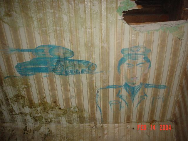 WWII-era graffiti on the third floor of Dalkeith Palace in Spring 2004.